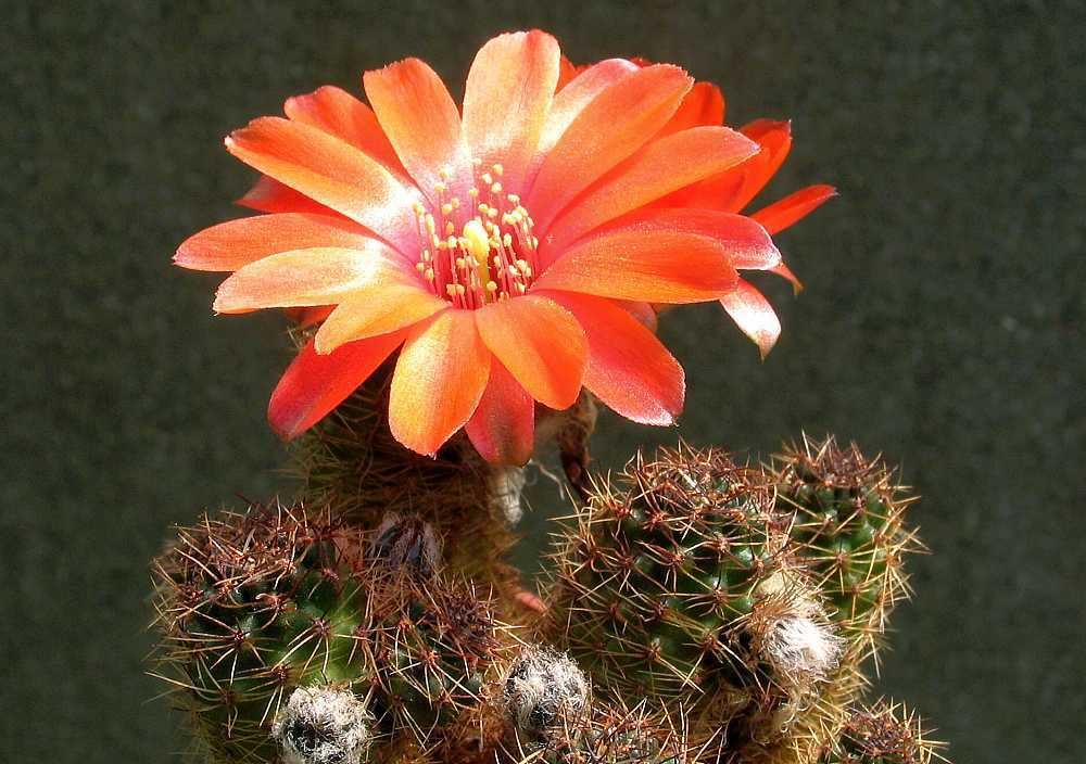 Rebutia brunneoradicata - cultivated plant (seed marked FR1109) from own collection.